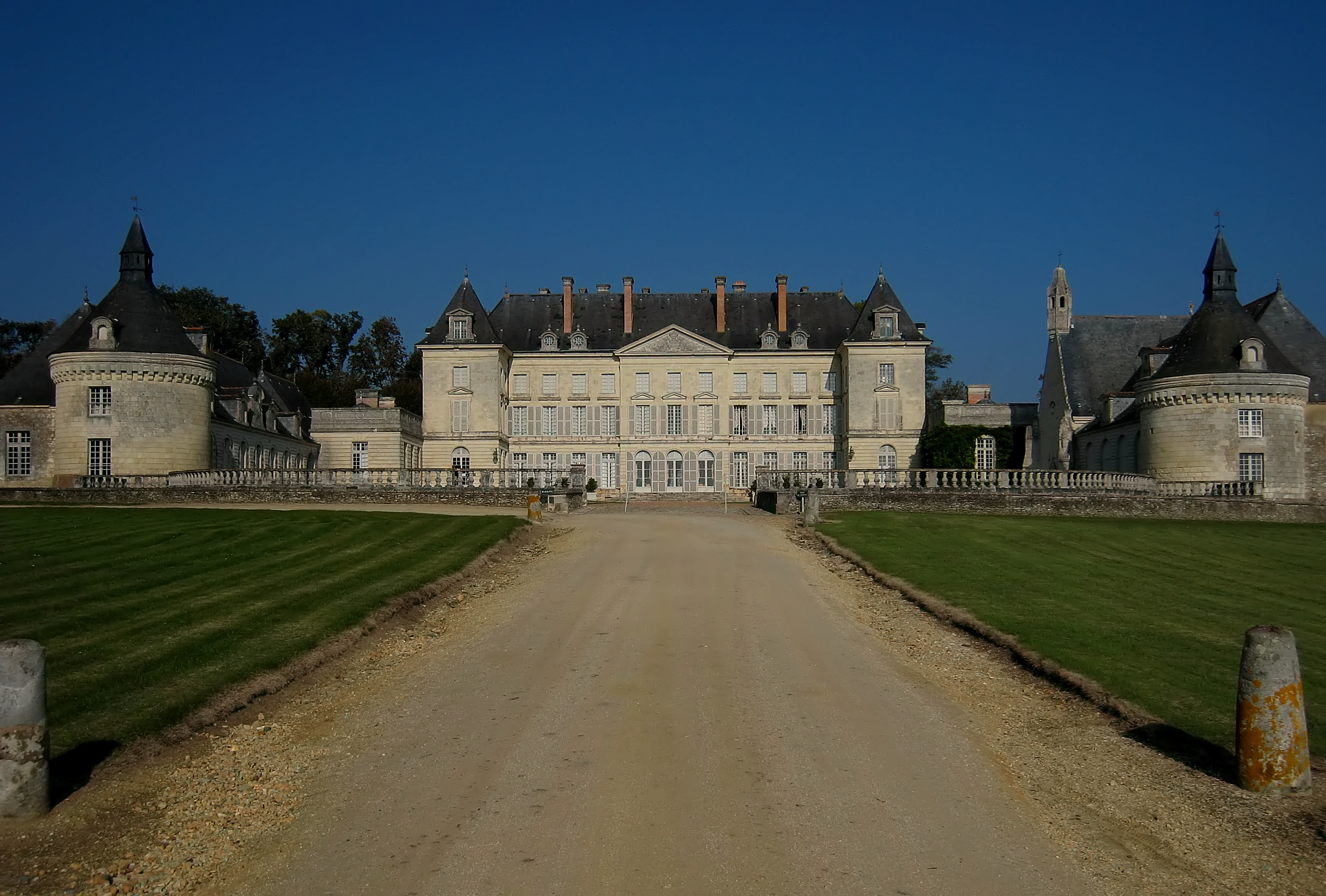 Castle Montgeoffroy, located near the village of Mazé in the county of Maine-et-Loire/France